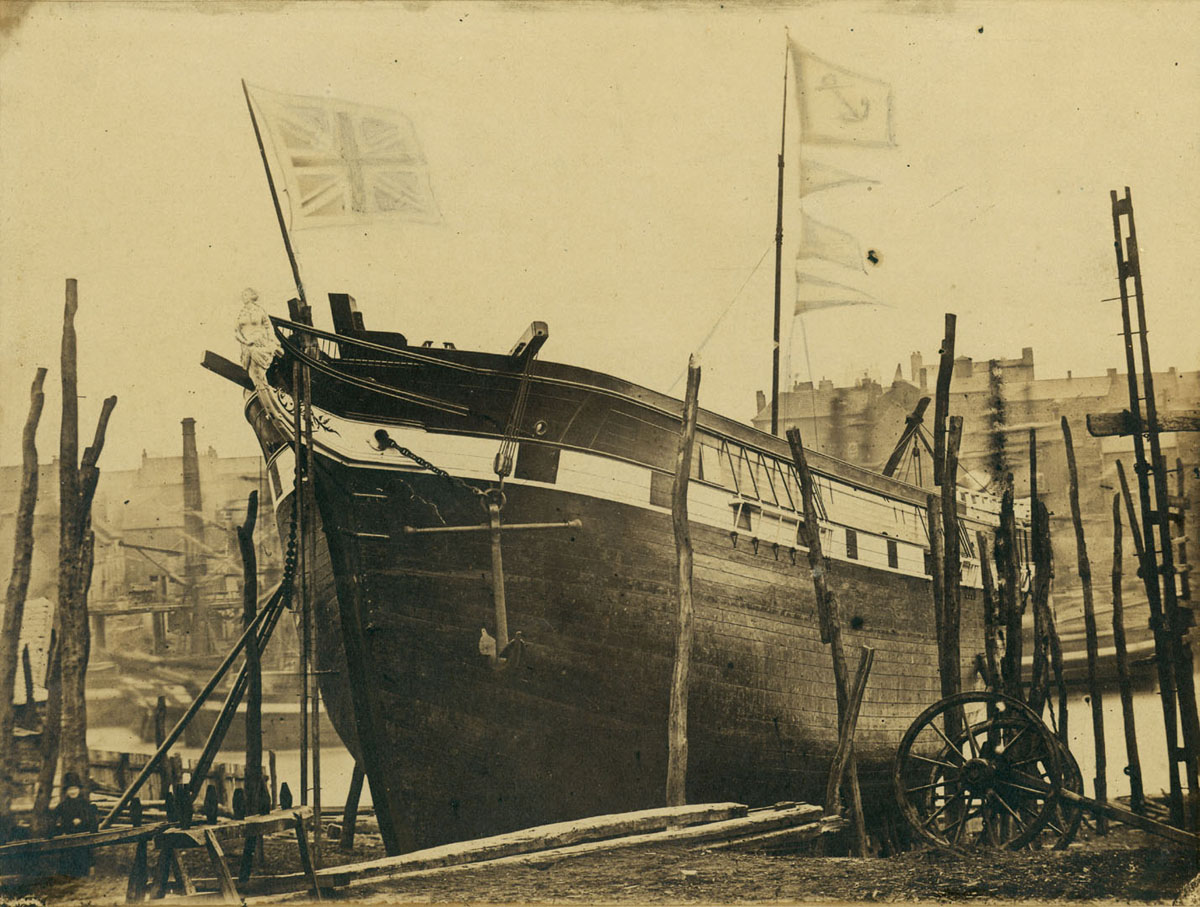 Launch of the barque ‘Vencedora’ built by Robert Thompson & Sons, North Sands, April 1860 (TWAM ref. DS.JLT/4/PH/1/70). Tyne & Wear Archives is proud to present a selection of images from its Sunderland shipbuilding collections. The set has been produced to celebrate Sunderland History Fair on 7 June 2014. It's a reminder of the thousands of vessels launched on the River Wear and the many outstanding achievements of Sunderland’s shipyards and their workers. These photographs reflect Sunderland’s history of innovation in shipbuilding and marine engineering from the development of turret ships in the 1890s through to the design for SD14s in the 1960s. The Sunderland shipbuilding collections are full of fascinating stories. Some of these are represented in this set, such as the ‘Rondefjell’, launched in two halves on the River Wear by John Crown & Sons Ltd and then joined together on the River Tyne. The set also shows the vital part that Sunderland’s shipbuilding industry played during the First World War. William Doxford & Sons Ltd built Royal Naval destroyers such as HMS Opal, which served in the Battle of Jutland, while other yards constructed cargo ships to help keep these shores supplied. (Copyright) We're happy for you to share these digital images within the spirit of The Commons. Please cite 'Tyne & Wear Archives & Museums' when reusing. Certain restrictions on high quality reproductions and commercial use of the original physical version apply though; if you're unsure please